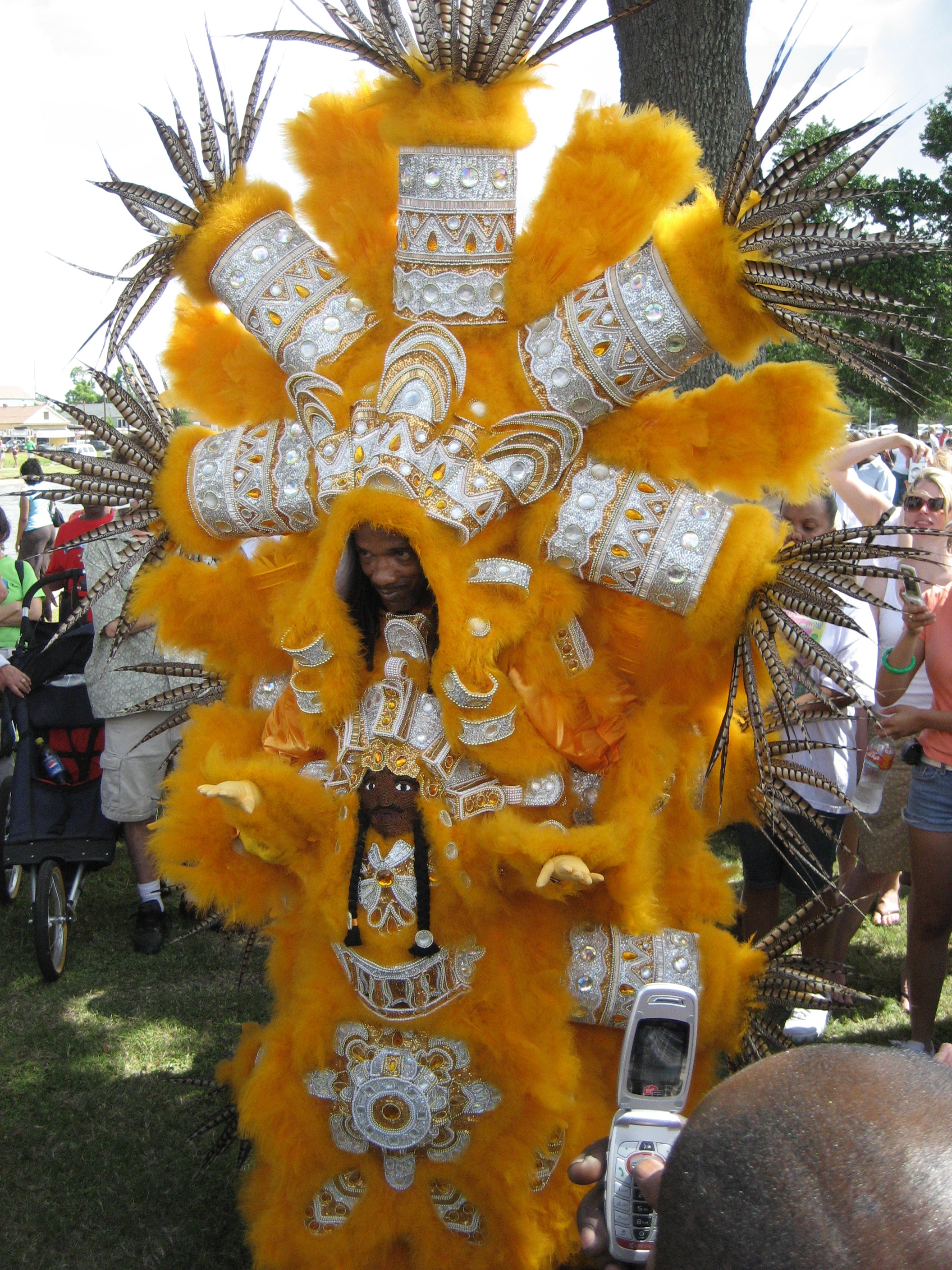 Mardi Gras Indian Big Chief Darryl Montana, with suit with depiction of his father, the late legendary Big Chief Tootie Montana. New Orleans Bayou St. John Indians "Super Sunday" 2007